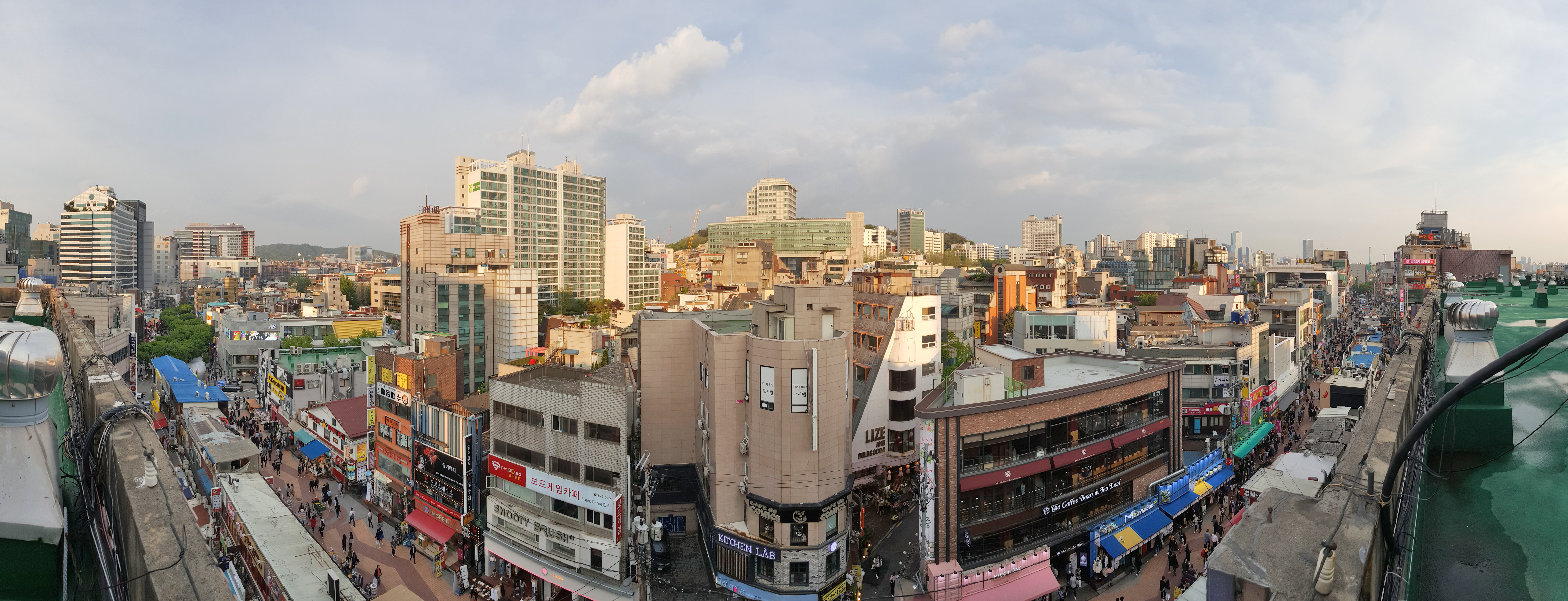 Hongdae area cityscape (South Korea)